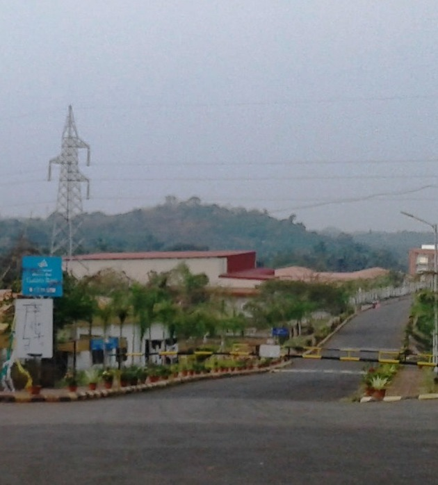 Kasaragod - Kanhangad road, Kasaragod District, Kerala state, India.